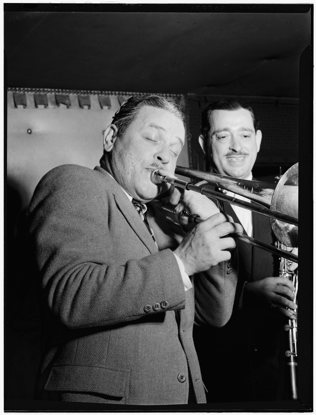 Portrait of George Brunis and Tony Parenti, Jimmy Ryan's (Club), New York, N.Y.